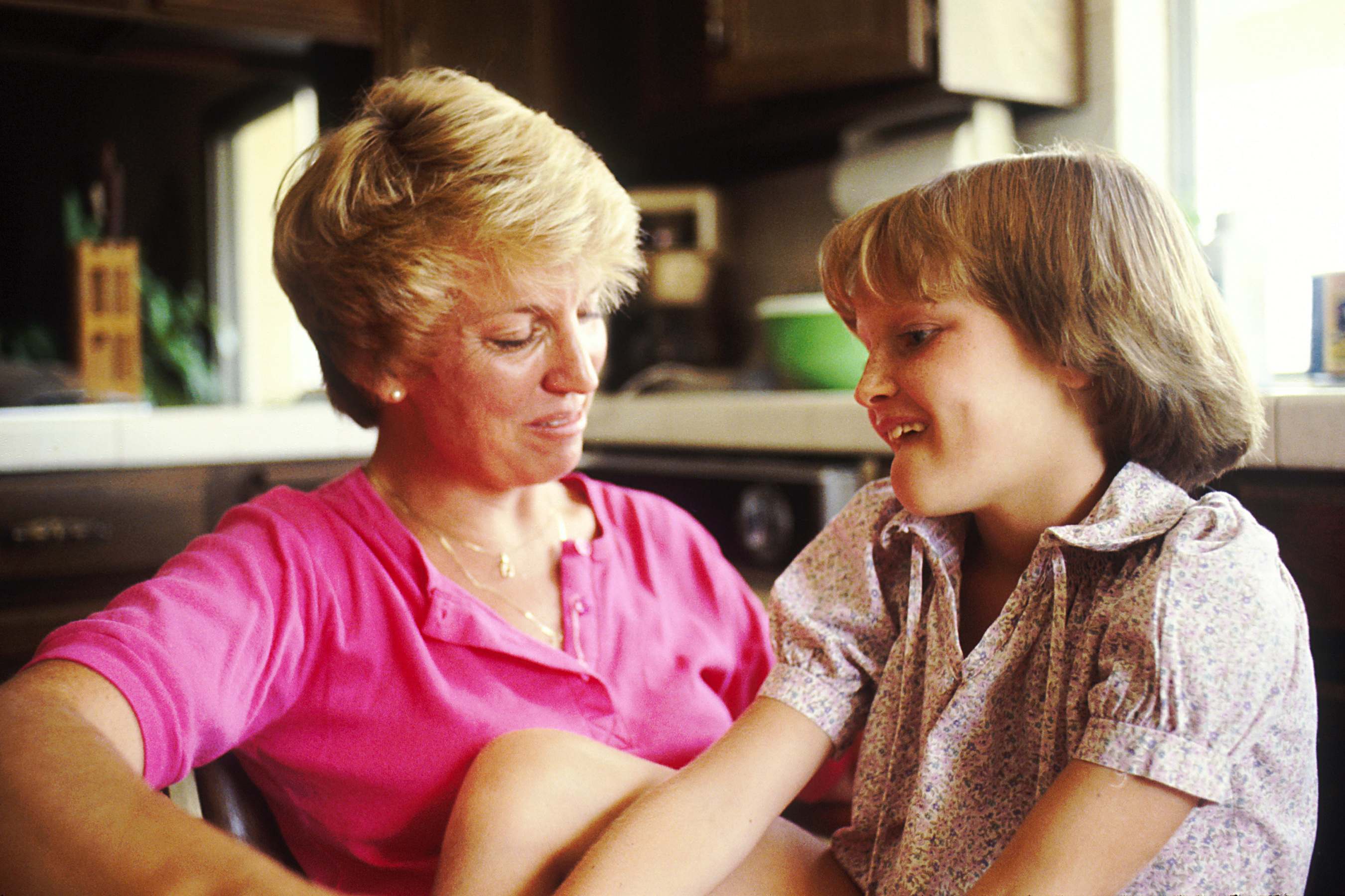 Title Mother and Daughter Talking Description A 9 year-old Caucasian child in a home setting talking with her mother. The girl is a long-term survivor of massive abdominal surgery at age 3 for neuroblastoma. She is presently disease-free. Topics/Categories People -- Adult People -- Child People -- Family/Friends Type Color, Photo Source National Cancer Institute